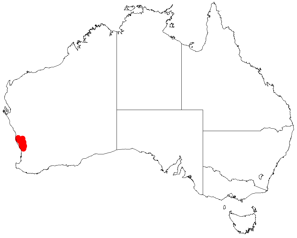 Acacia cummingiana occurrence data from Australasian Virtual Herbarium downloaded from on December 8 2018